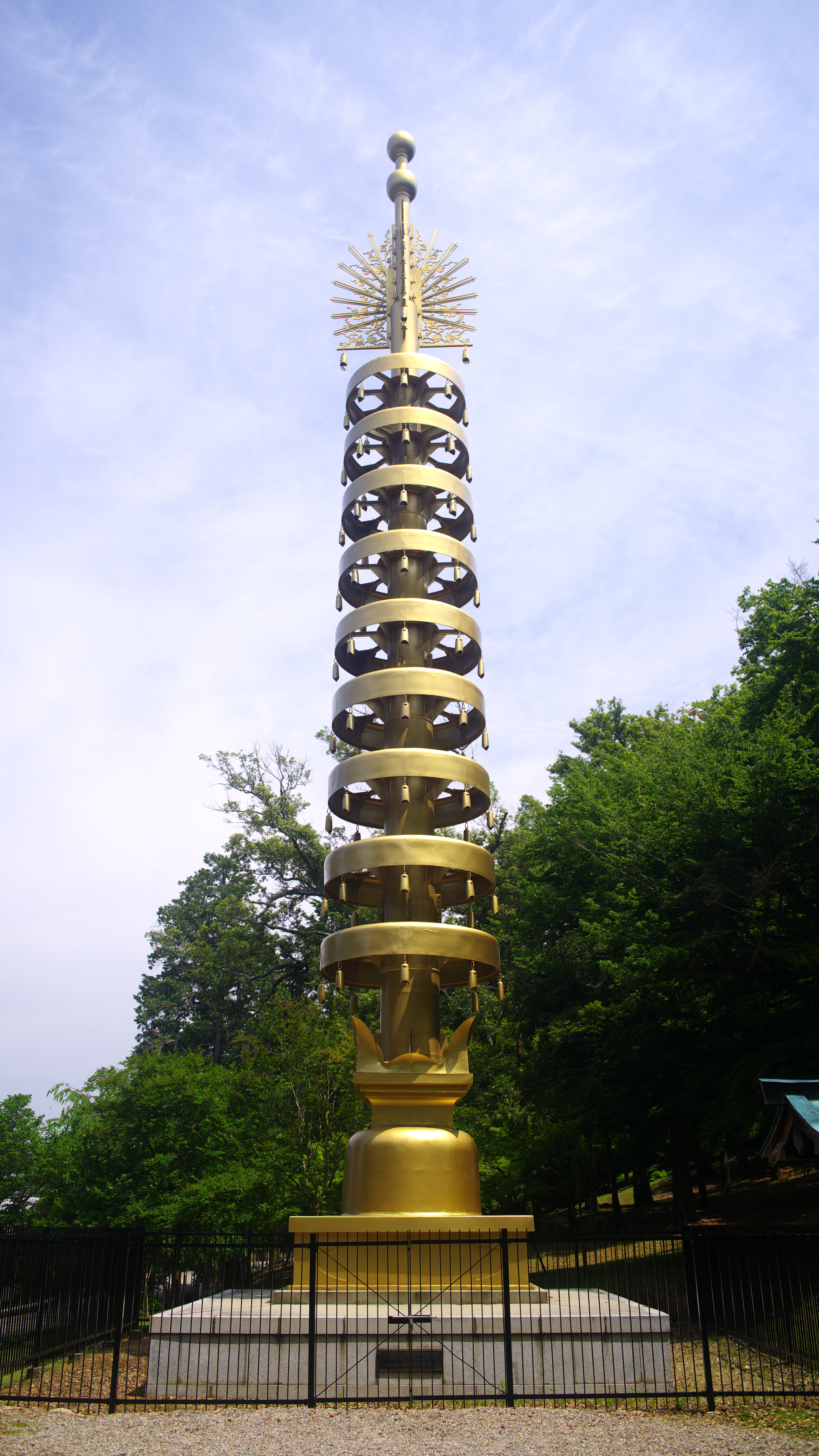 Sōrin of Furukawa Pavillion. Todaiji, Nara